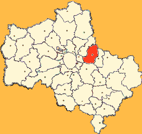 Moscow Region map by Al Silonov